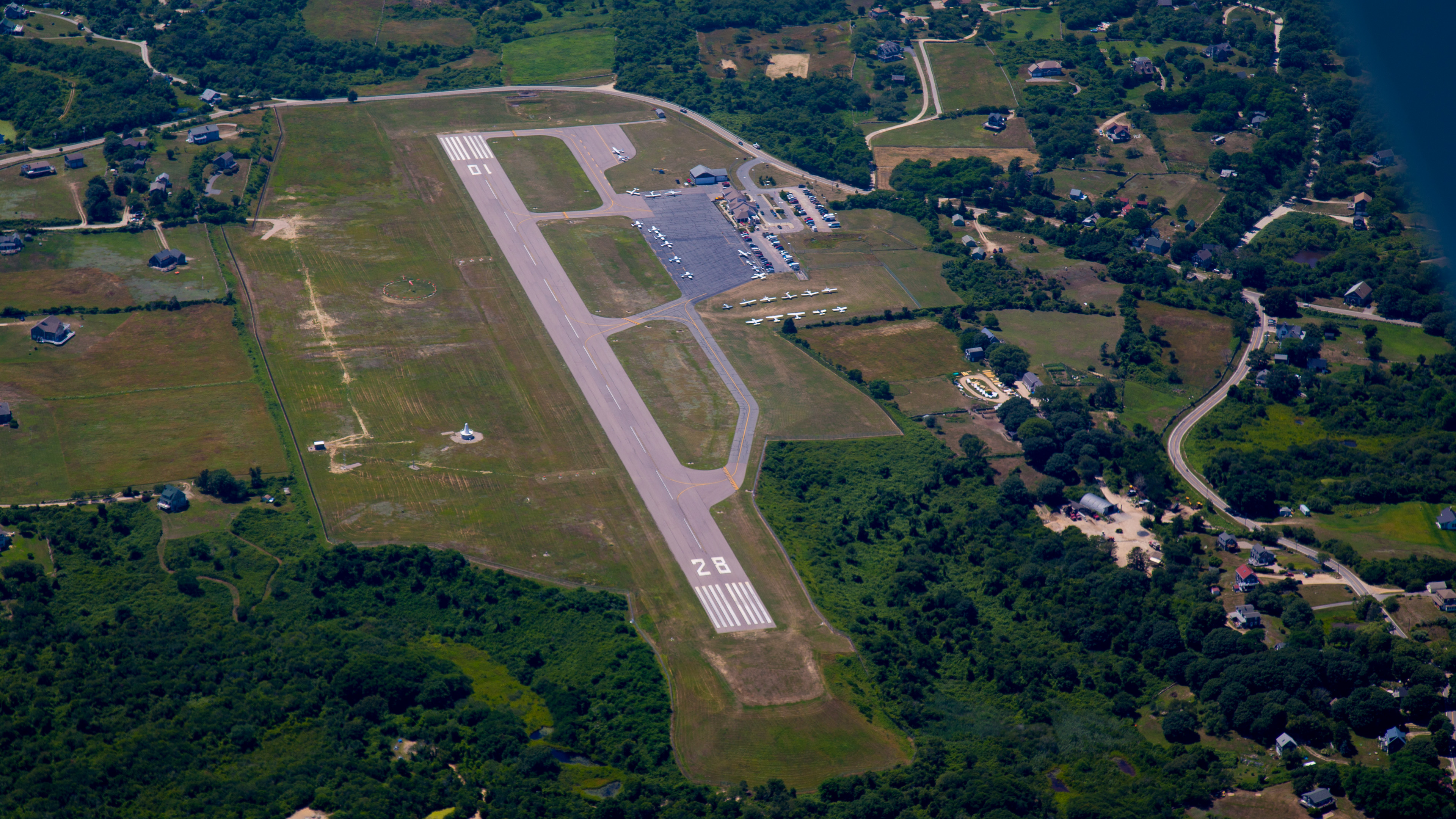 Aerial Photo of Block Island Airport in the Summer